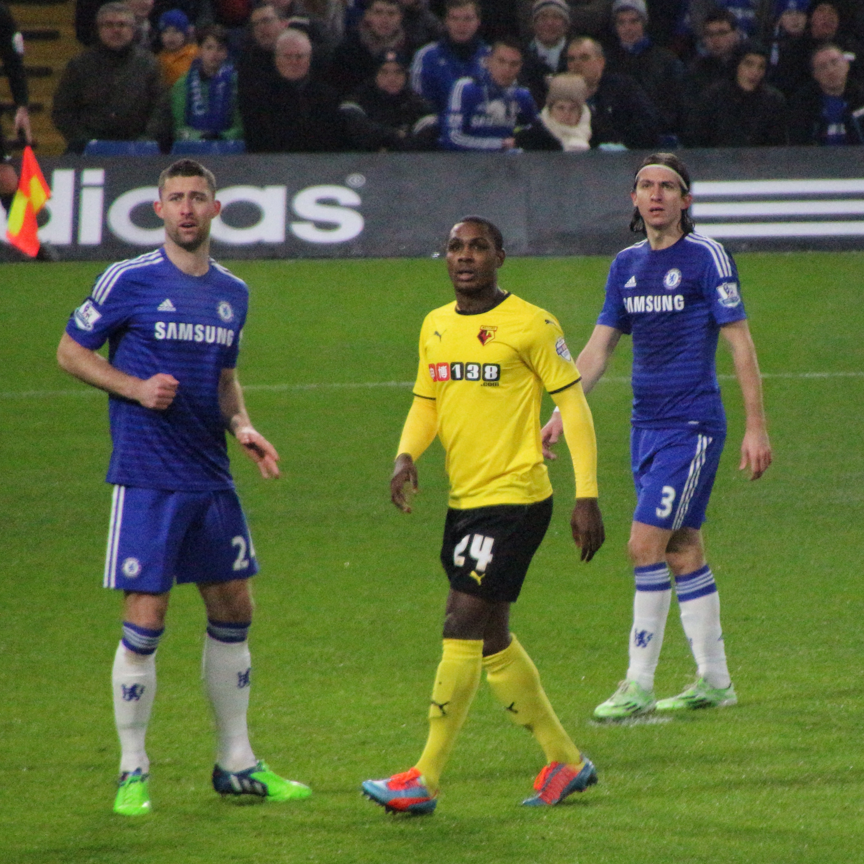 Chelsea 3 Watford 0 FA Cup 3rd round